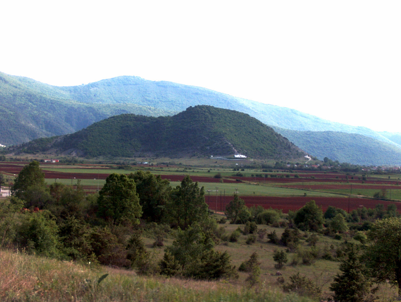 Lysse fortress